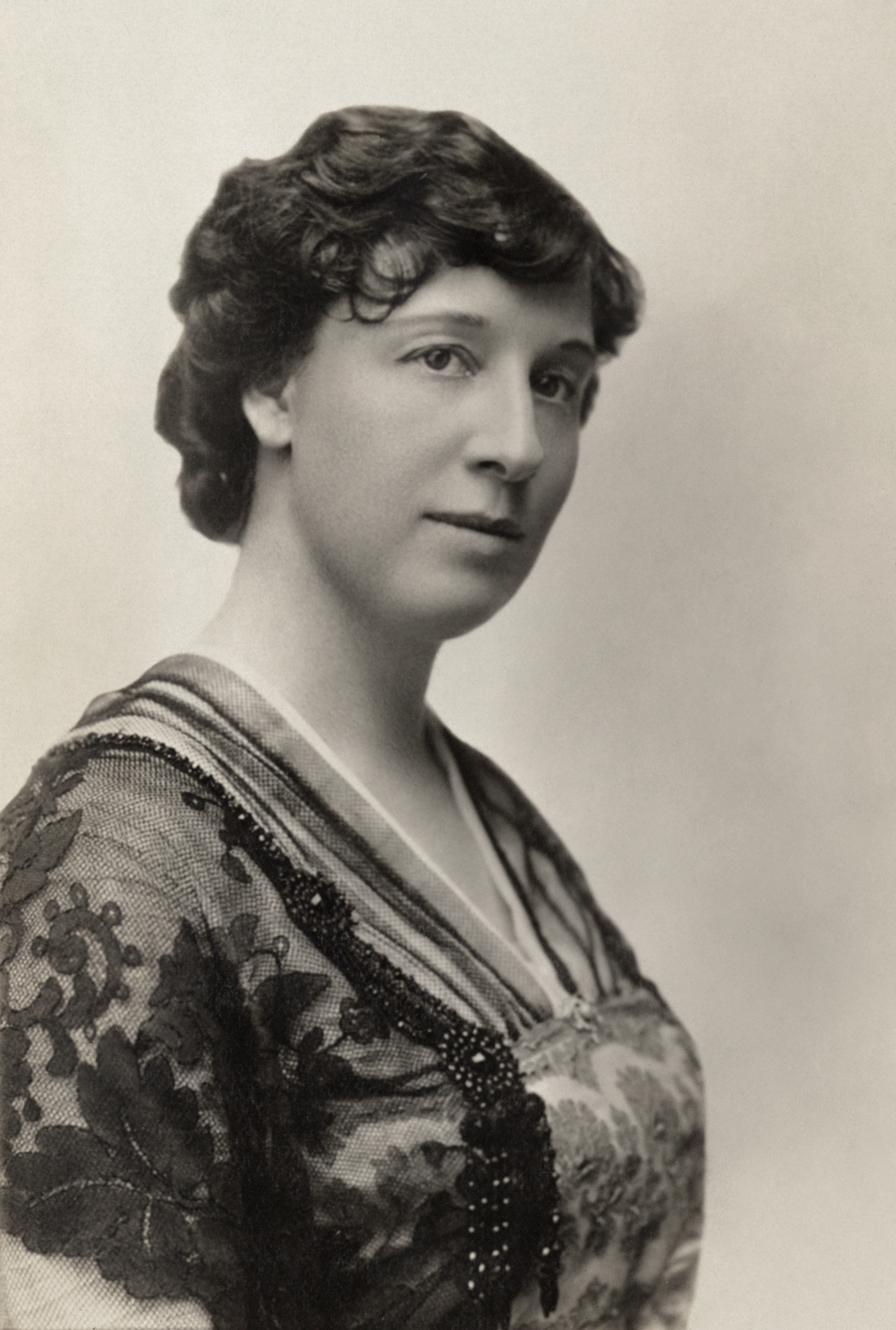 "Mrs. W. D. Ascough of Hartford, Conn., chairman of the Connecticut branch of the Woman's Party": Formal portrait, head and shoulders, Lillian Ascough, facing right, head turned toward camera. 6 x 4 in., uncropped. Lillian Ascough of Detroit, Mich., served as Connecticut State Chairman, NWP. Studied for concert stage in London and Paris. Abandoned concert stage to devote time to suffrage. Sentenced to fifteen days, August 1918, Lafayette Square demonstration, and five days, February 1919, in watchfire demonstration. She was a speaker in the "Prison Special" tour of Feb-Mar 1919. Source: Doris Stevens, Jailed for Freedom (New York: Boni and Liveright, 1920), 355. Verso (struck out): "A speaker in the demonstration this afternoon." Photograph published in The Suffragist, 3, no. 26 (June 26, 1915): 5; The Suffragist, 4, no. 44 (Oct. 28, 1916): 7; and The Suffragist, 4, no. 50 (Dec. 9, 1916): 9.